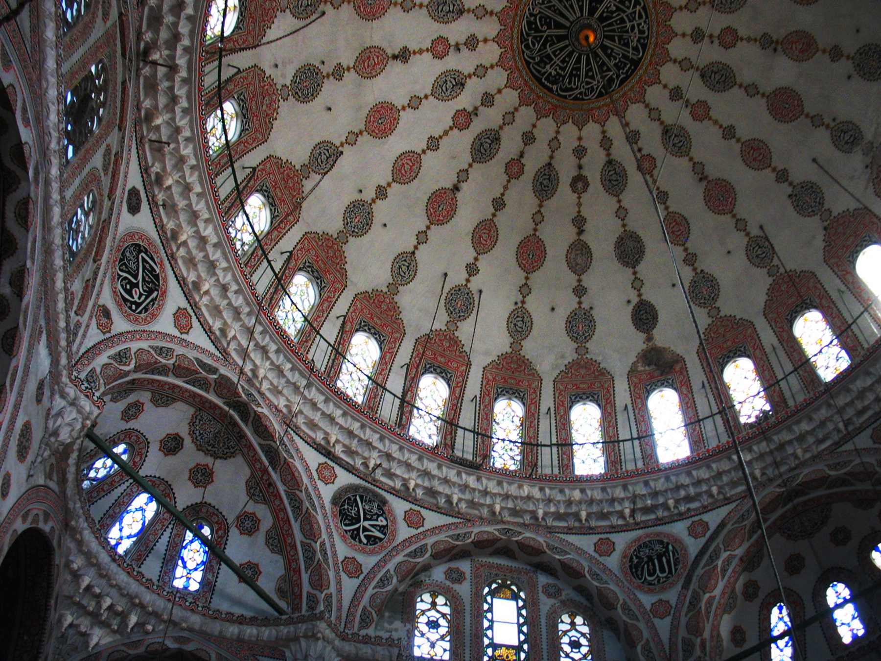 interior view, dome of Yeni Valide Mosque—Üsküdar, Istanbul, Turkey.